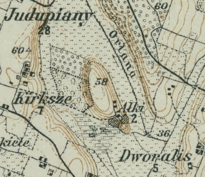 (Alkas village. 1915)